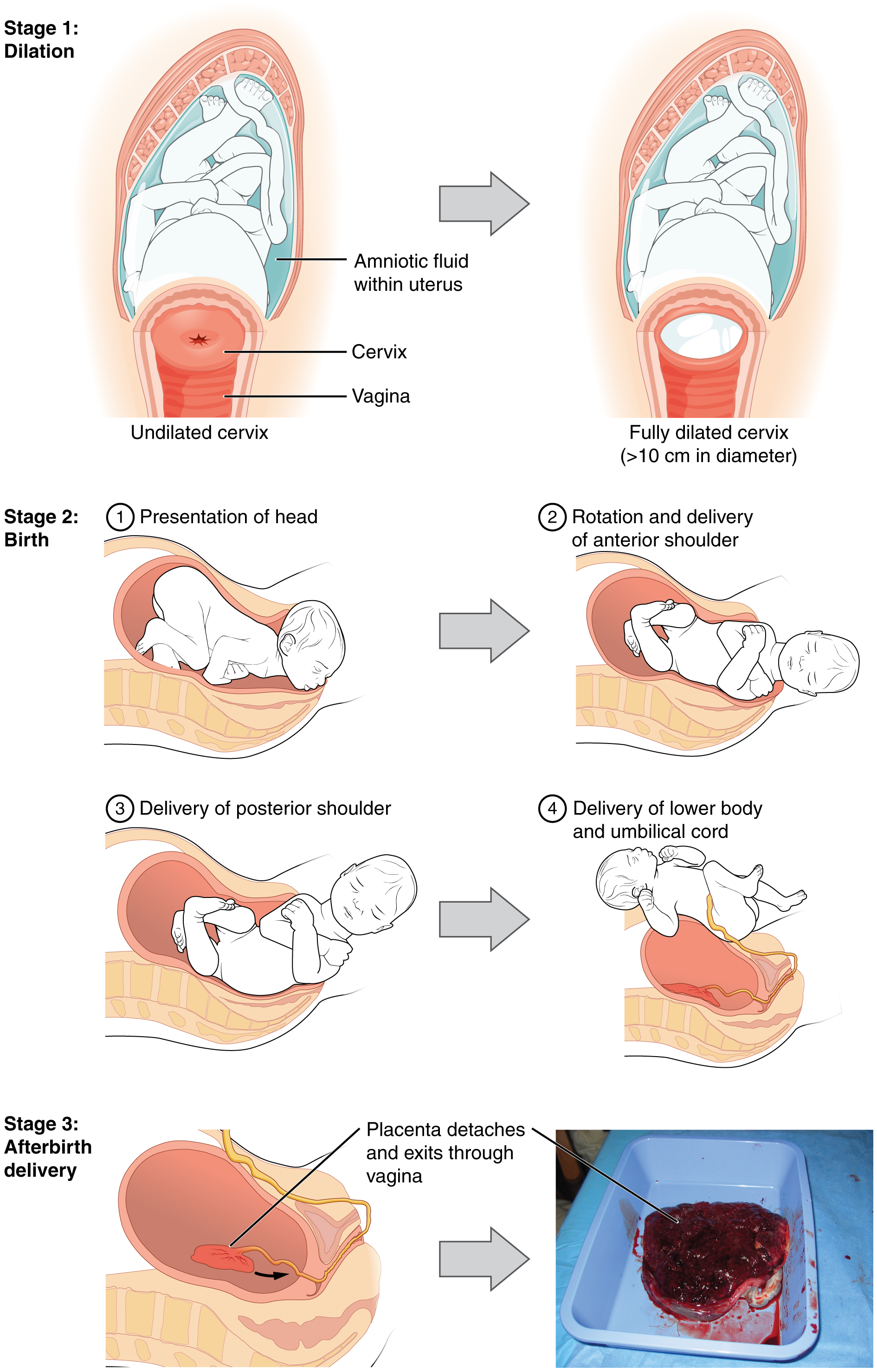 Illustration from Anatomy & Physiology, Connexions Web site. Jun 19, 2013.